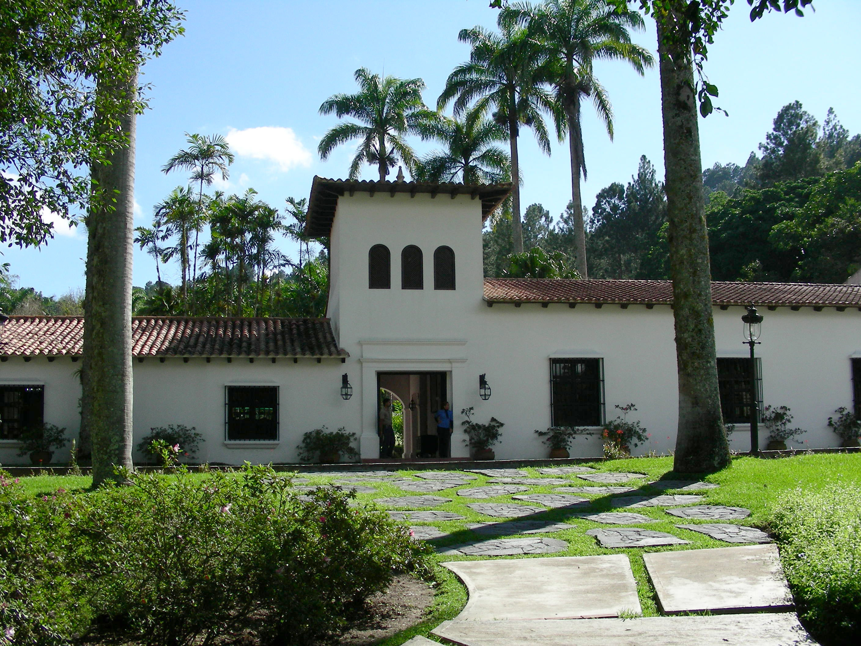 Rectoral House, Simón Bolívar University, Caracas, Venezuela.